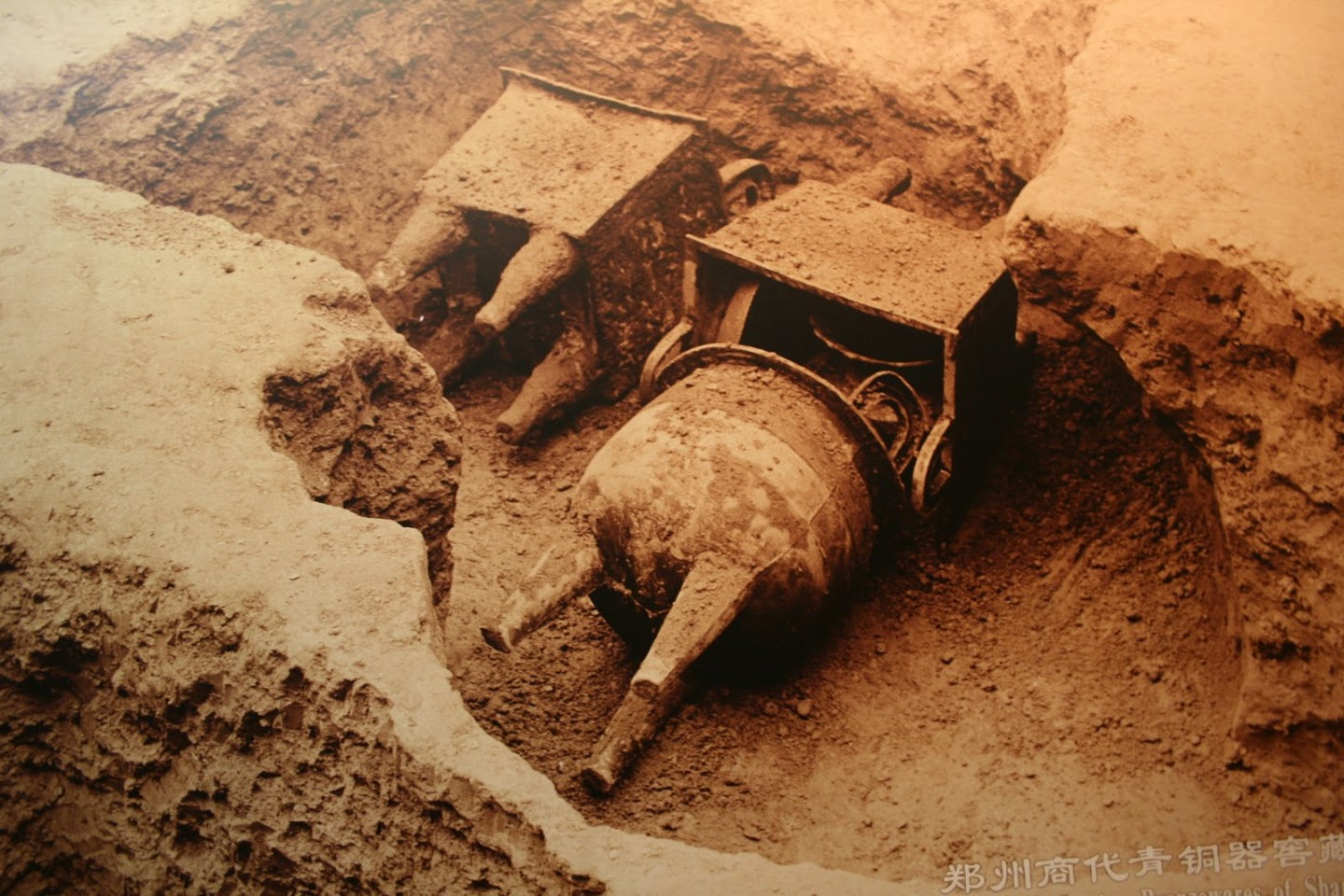 Zhengzhou arch site. Erligang. Henan Provincial Museum